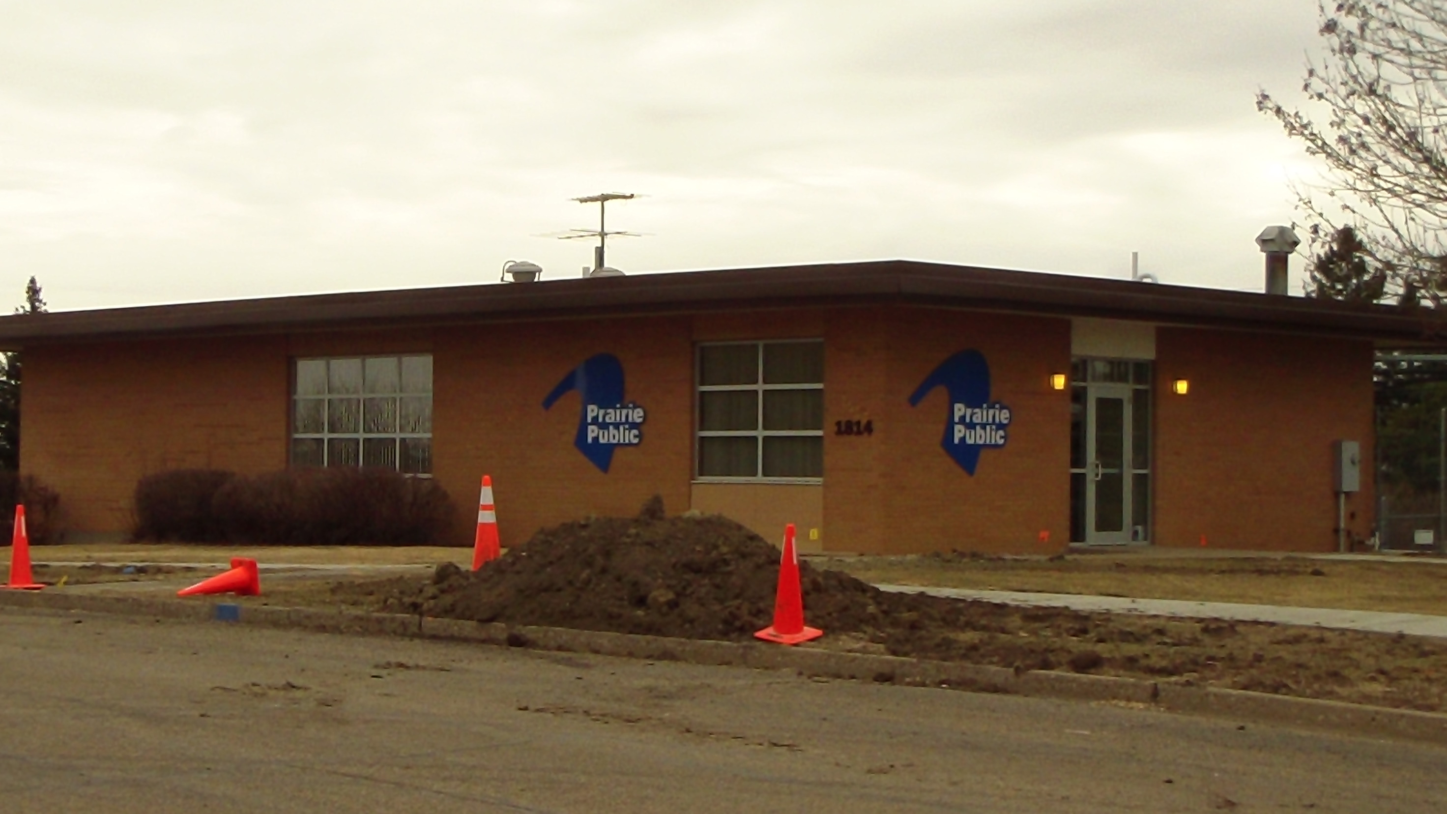 The Prairie Public Studio in Bismarck, North Dakota, the hub of the Prairie Public Radio News and Classical Network and secondary studio for Prairie Public Television